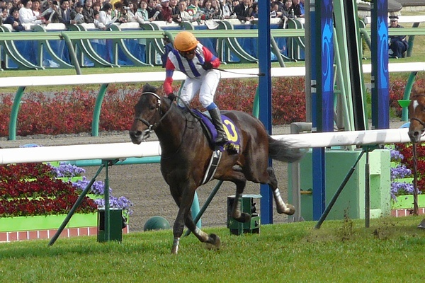 Yasunari-Iwata20100418